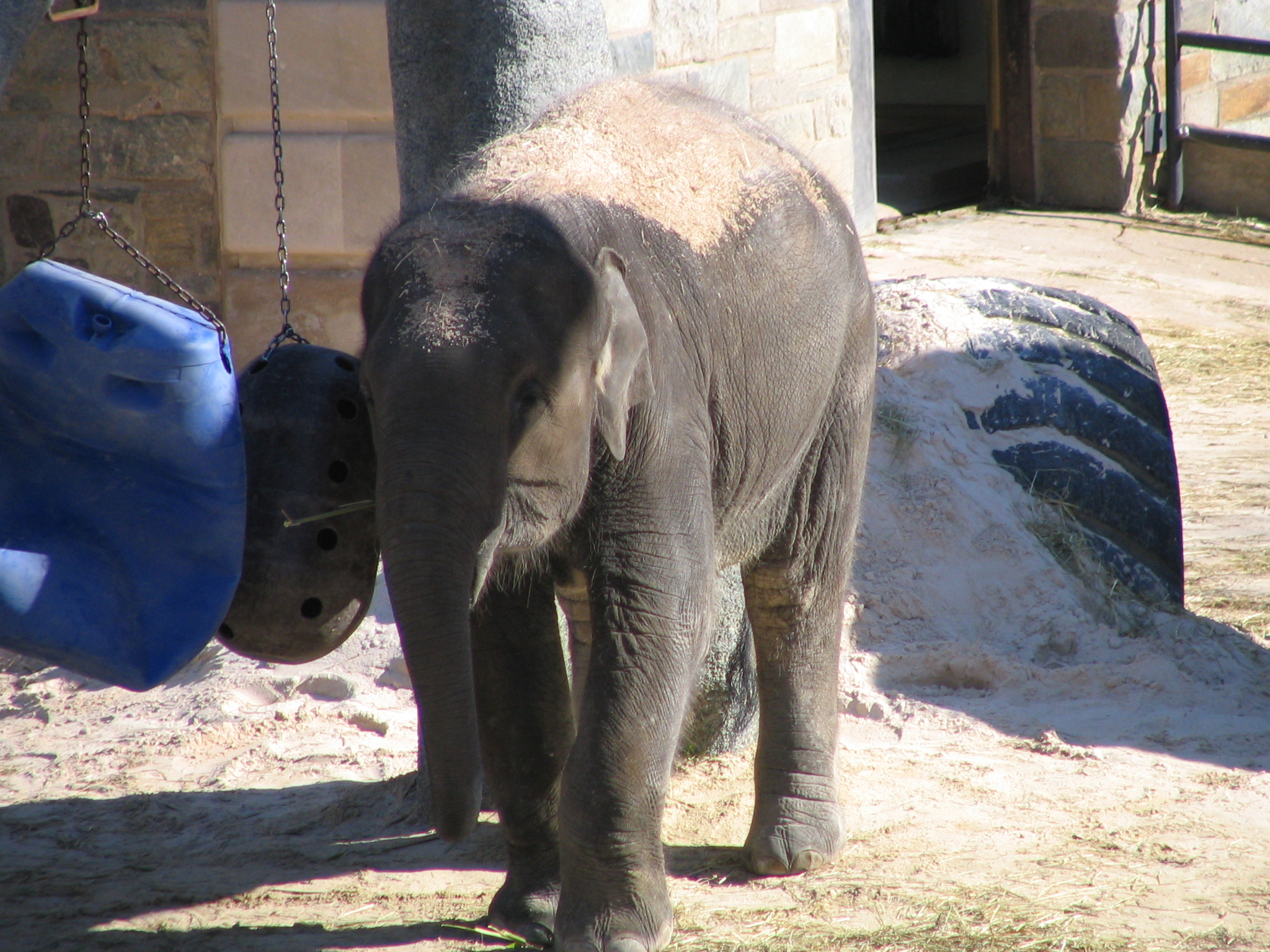 Kandula, a baby Asian elephant born at the National Zoo in Washington, DC, at 4 years of age.